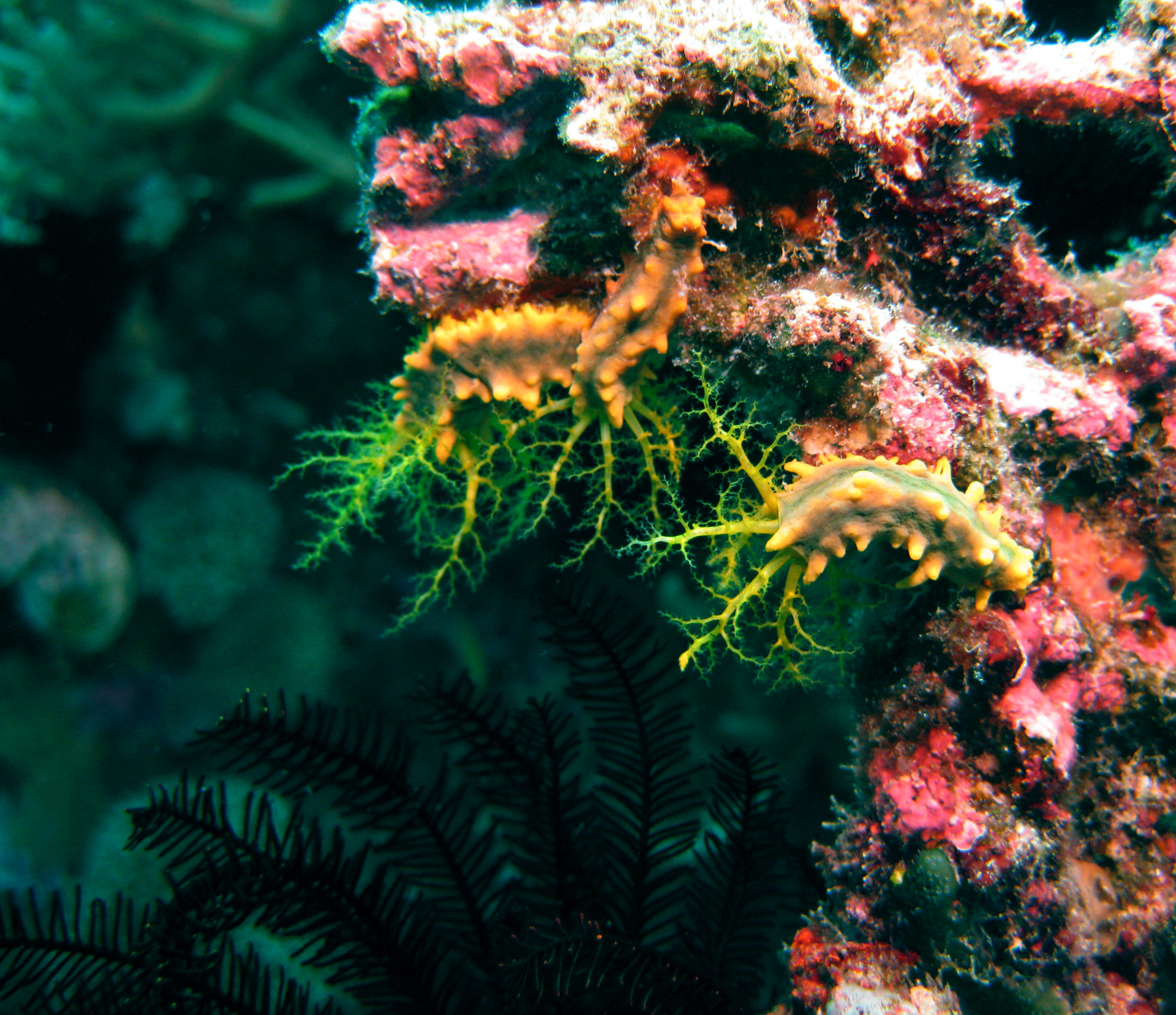 Colochirus quadrangularis - Gelbe Seegurke Robust is the order of the day. This is a cluster of 3 Robust Cucumbers. I wouldn't have one of those in my salad.